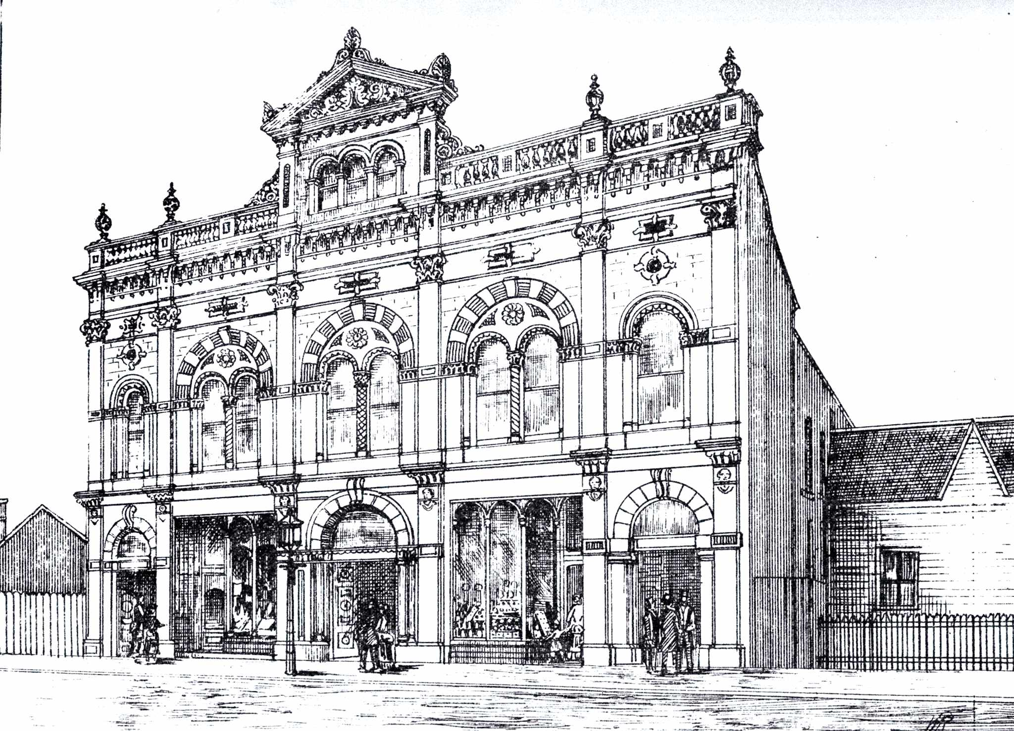 The Tuam Street public hall was designed in the early 1880s by T.S. Lambert (d. 1915) and opened on 20 July 1883, seating 2,200 including a gallery seating 600. It was built by a syndicate of citizens who ran it for some years. It became the Opera House in July 1894. Benjamin Fuller (1875-1952) moved in on 19 February 1903, presenting vaudeville. In 1927 E.S. Luttrell (1872-1932) reshaped the interior and the New Opera House opened on 26 December, seating 1,300. The stage was 60' wide, 60' deep and 40' high, and there were 19 dressing rooms. It turned to film in 1930 and was renamed the St James on 26 July. Though used primarily for movies, the stage was retained and the building used occasionally for live entertainment. On 29 September 1960 it became the Odeon. It had been extensively altered and seated 720, 600 stalls making way for a coffee lounge. Christchurch Assembly of God bought the building in 1985 and re-opened it in October 1985 as their place of worship. In November 2003 it was sold to a group of Christchurch business people. Source: Illustrated guide to Christchurch and neighbourhood / M. Mosley, after p. 128, where the building is wrongly identified as the Queen's Theatre (in Hereford Street).